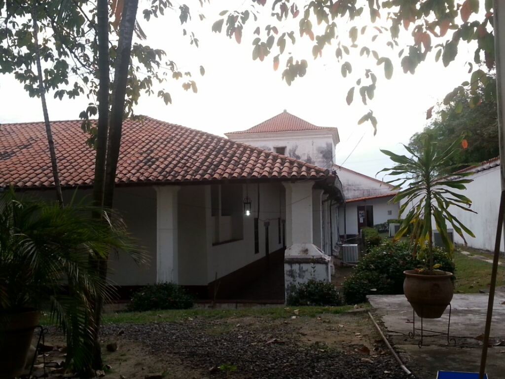 SEDE DE VICE-RECTORADO DE LA UNIVERSIDAD EXPERIMENTAL DE LOS LLANOS OCCIDENTALES EZEQUIEL ZAMORA, UNELLEZ - GUANARE - PORTUGUESA